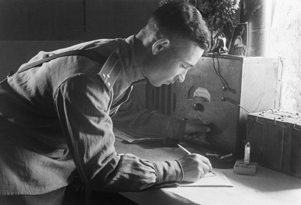 “Great Patriotic War of 1941-45”. The Great Patriotic War of 1941-45, The 1st Byelorussian Front, 48th Army, 1944. The army's newspaper "Slovo Boitsa" correspondent First Lieutenant Zinoviy Shkapenyuk recording the report of the Sovinformburo news agency.